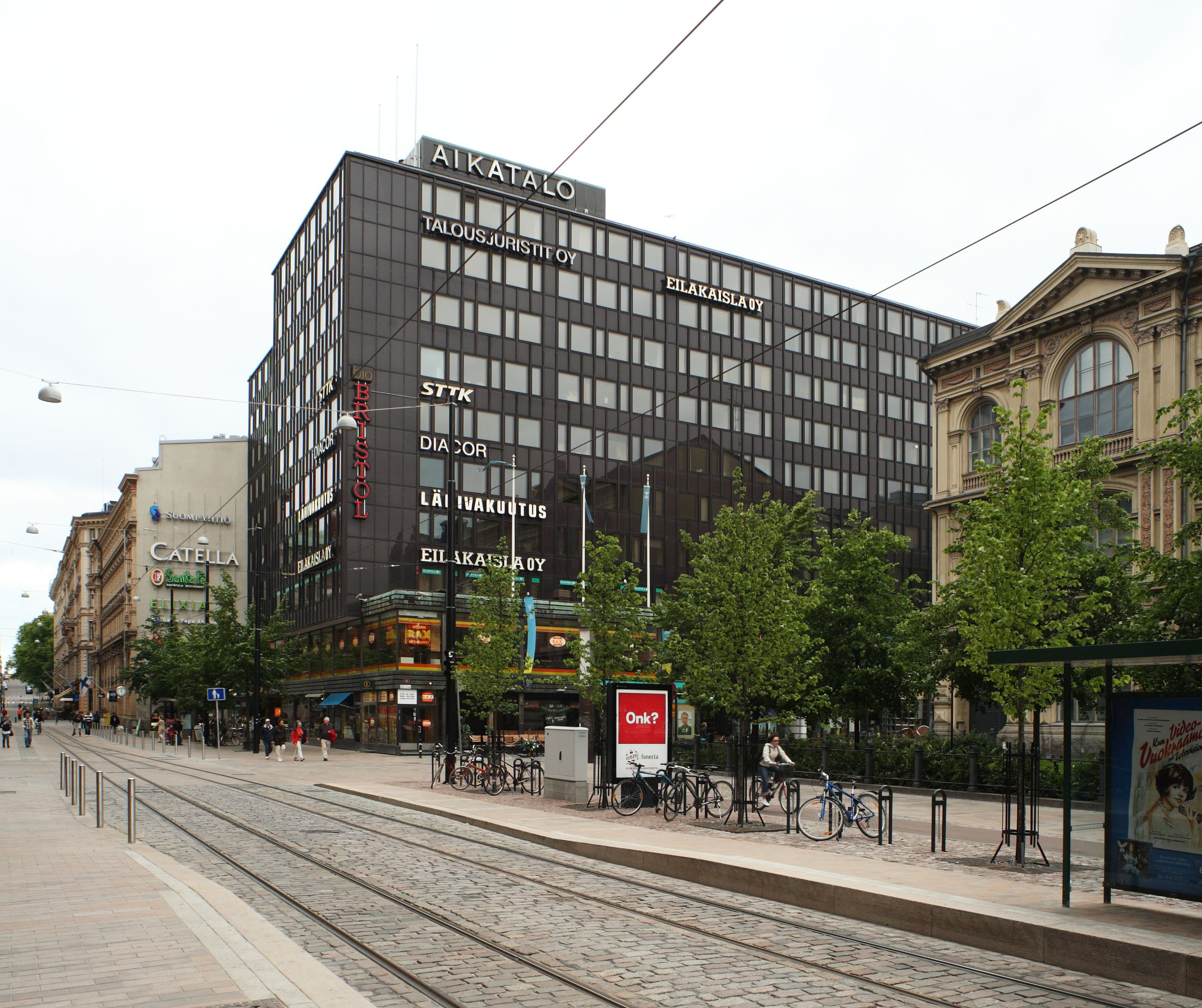 Aikatalo, Helsinki